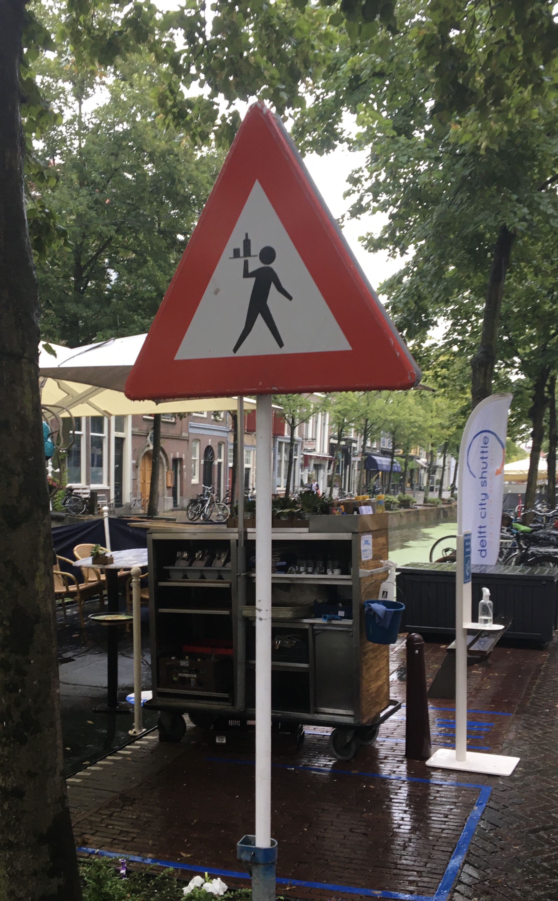 This road sign warns drivers and cyclists/moped riders to watch out for waiters or waitresses crossing from the restaurant to the outdoor area via the road and vice versa.